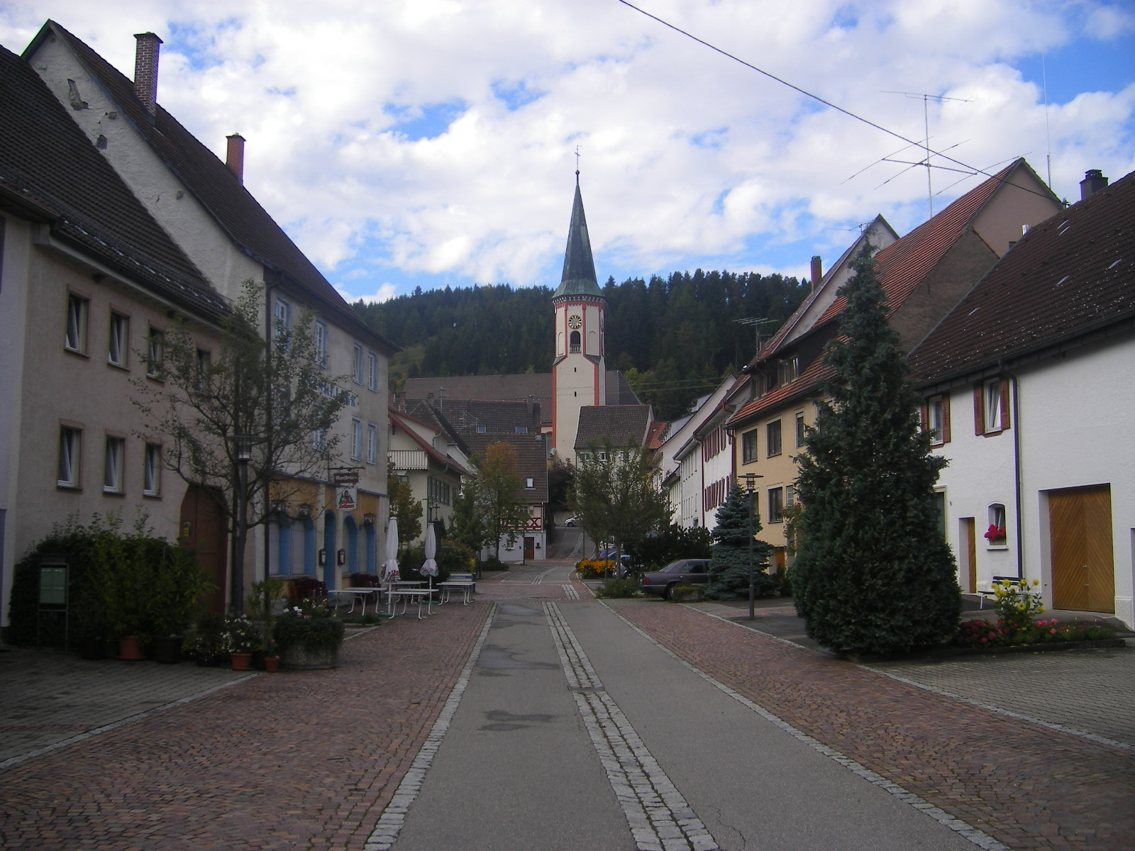 Möhringen (Tuttlingen municipality)